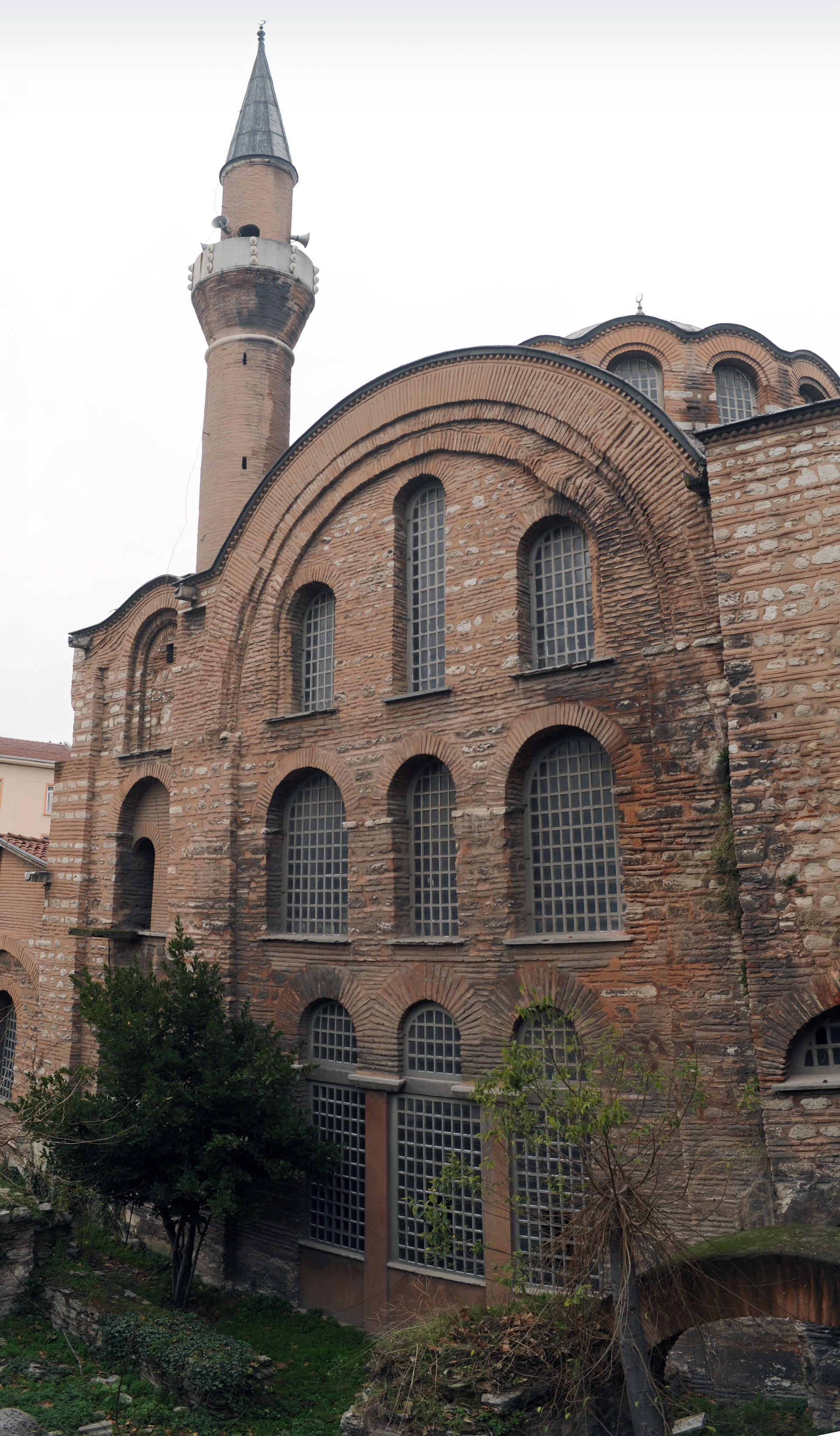 Kalenderhane Mosque, Fatih, Istanbul, Turkey.